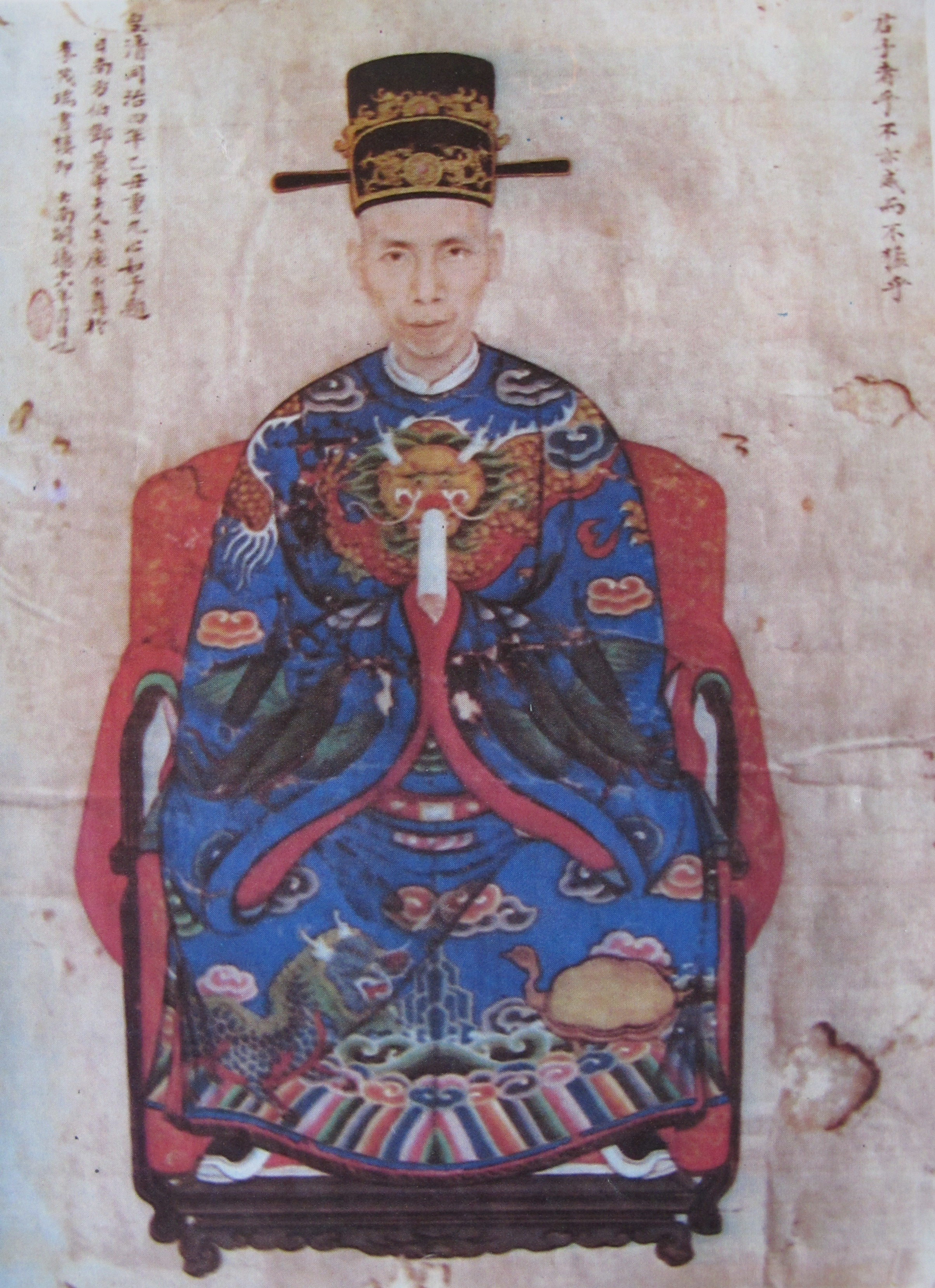 Portrait of Annamese officer Đặng-huy-Trứ at Guangdong 1865 by Li Ruiyan.